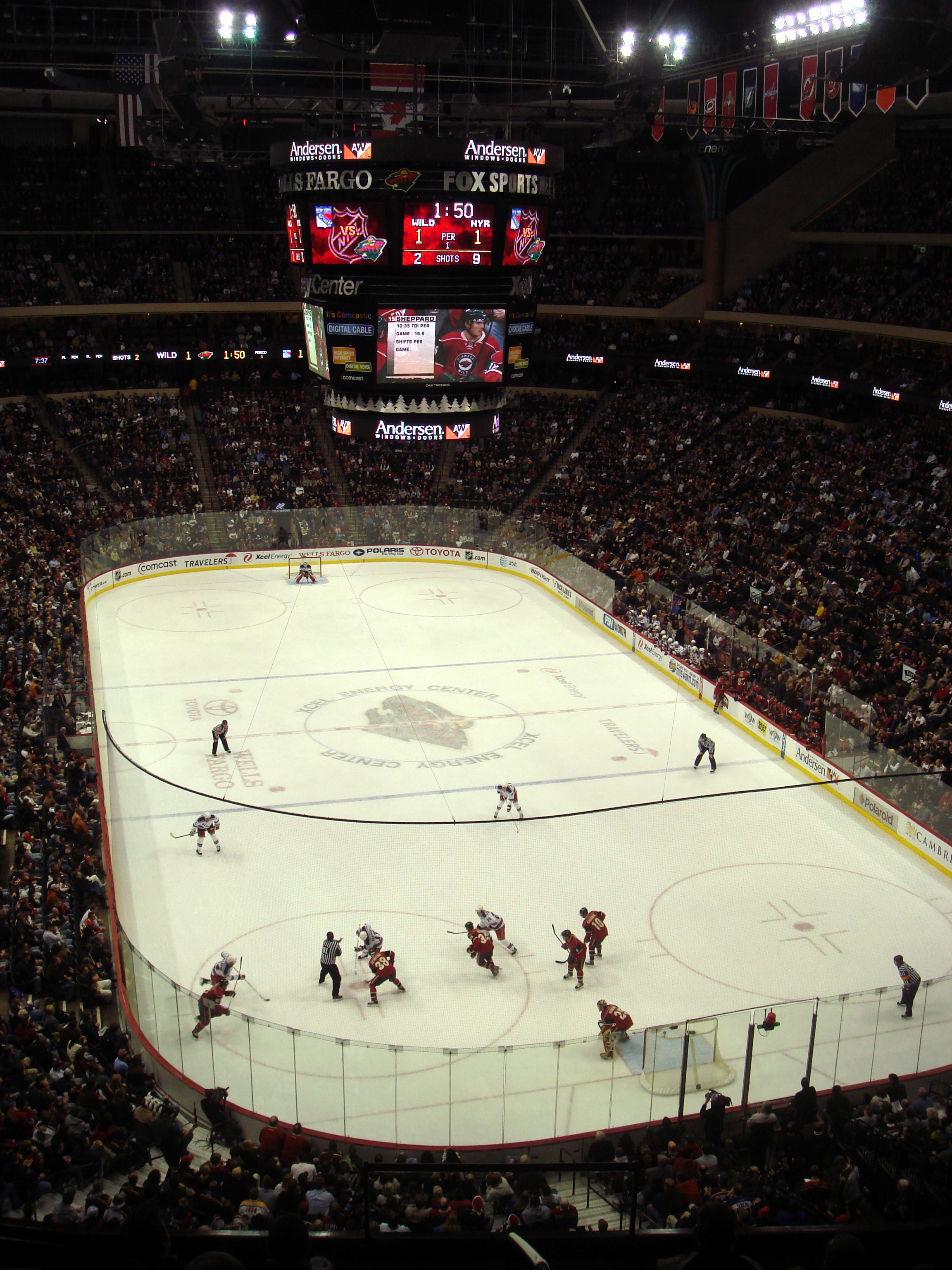 Xcel Energy Center arena in Saint Paul, Minnesota during a 2007-08 NHL season game between the Minnesota Wild and the New York Rangers. The Wild would win, 6–3, in a game notable for Marián Gáborík's five goal, one assist performance.